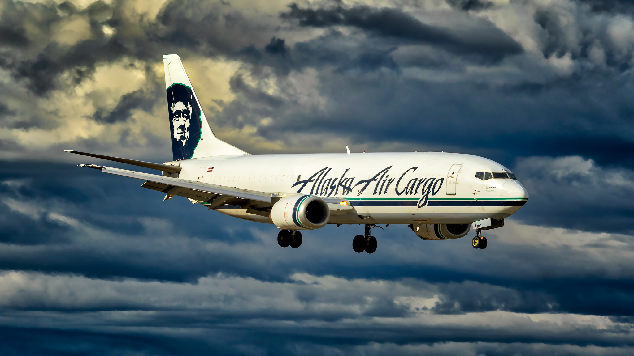 Alaska Air Cargo Boeing 737-490 (SF) N709AS Manufacturer Serial Number (MSN): 28896 Line Number: 3099 Converted into a freighter by Pemco in Jun 2006